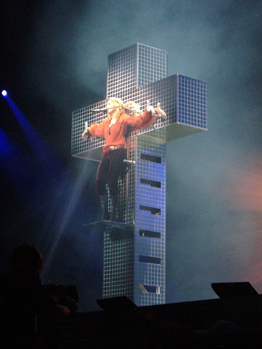 Madonna concert